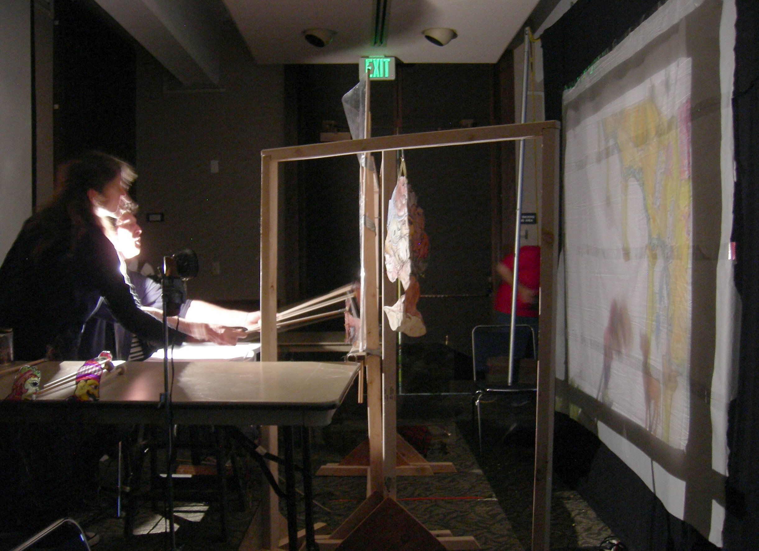 Backstage as Craig Jacobrown puppet troupe presents a child-friendly Karagöz and Hacivat shadow play at Turkfest, Center House, Seattle Center, Seattle, Washington, USA.